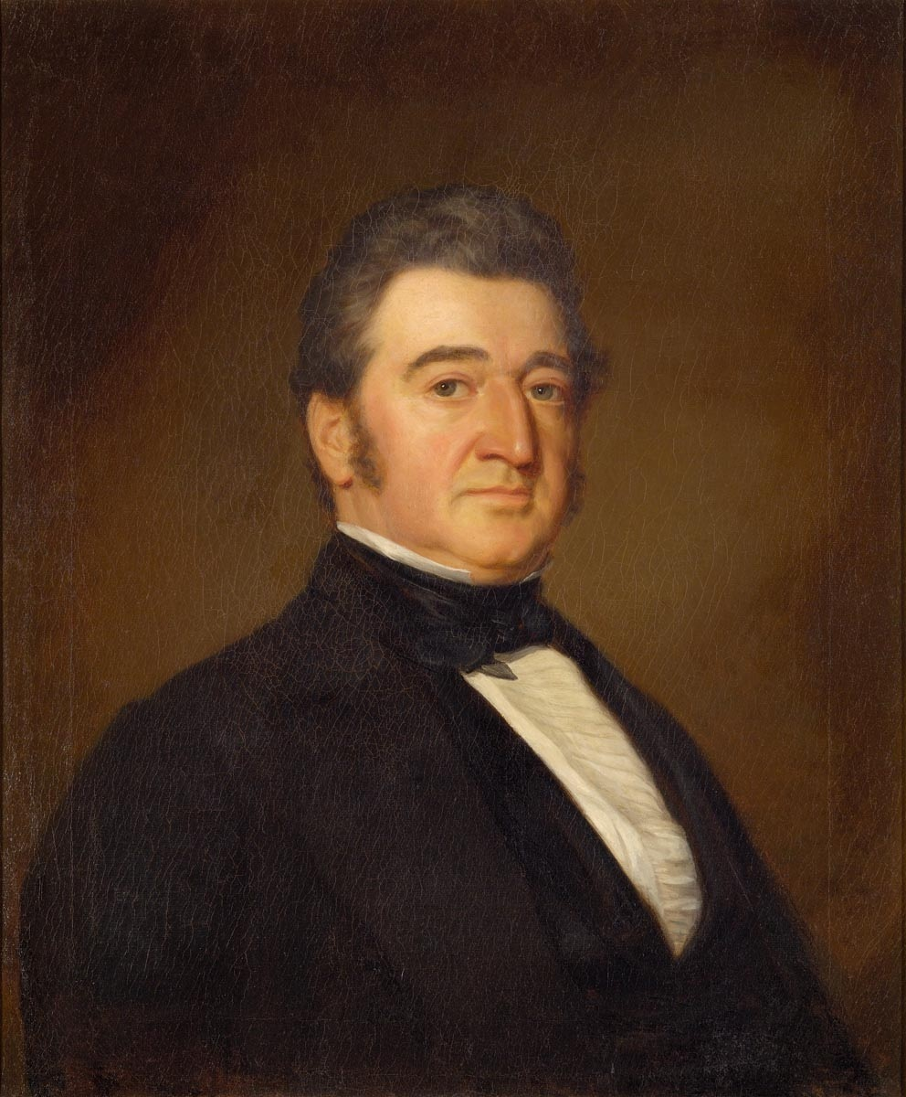 Frederick A. Tallmadge, New York Congressman